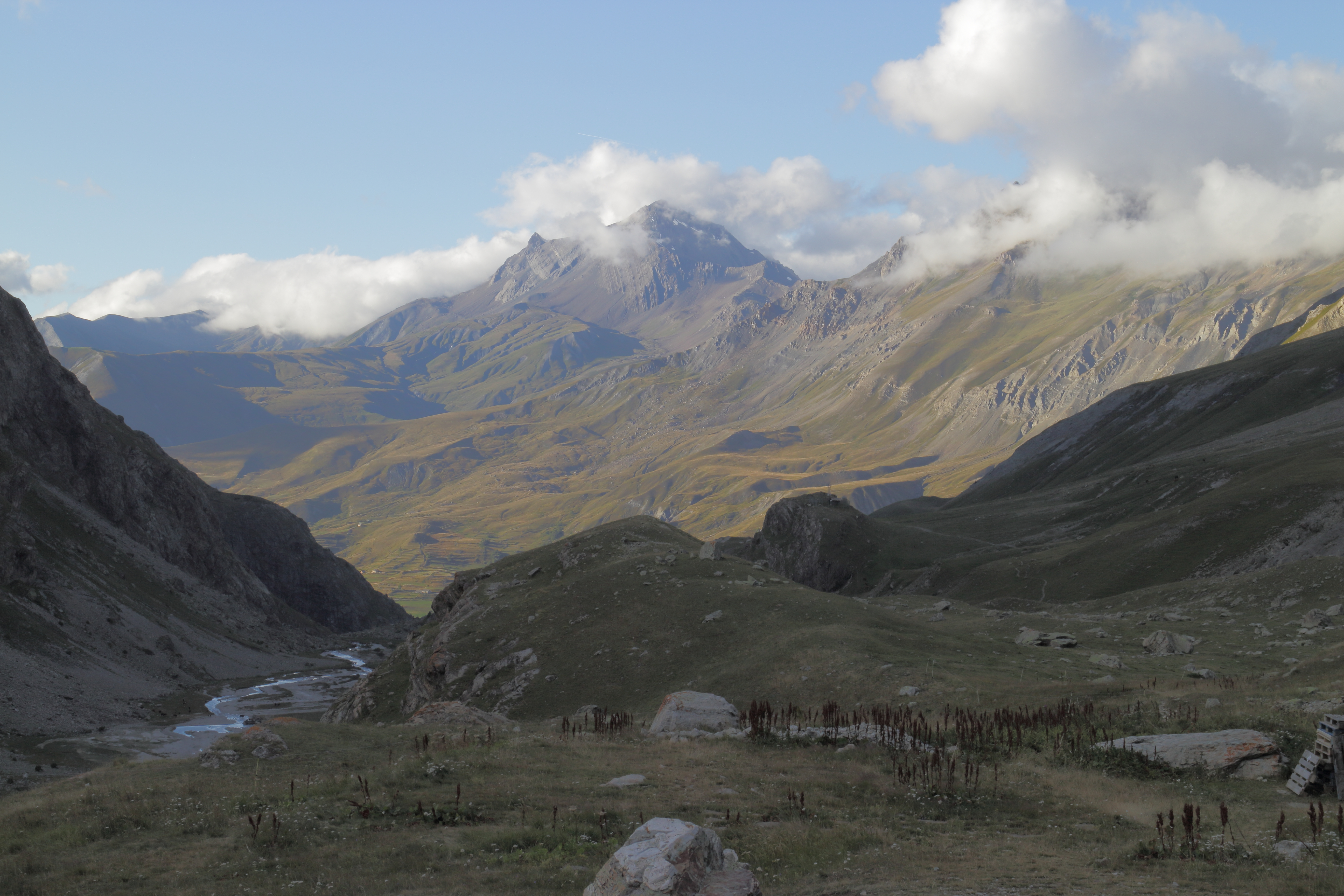 l'Alpe de Villar-d'Arène, (2078 m.)